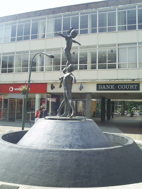 The Waterplay bronze sculpture in The Marlowes, Hemel Hempstead, was erected in 1993 and is by the artist Michael Rizzello, OBE . The work symbolises the energy co-operation and sporting spirit of the youth in Dacorum.